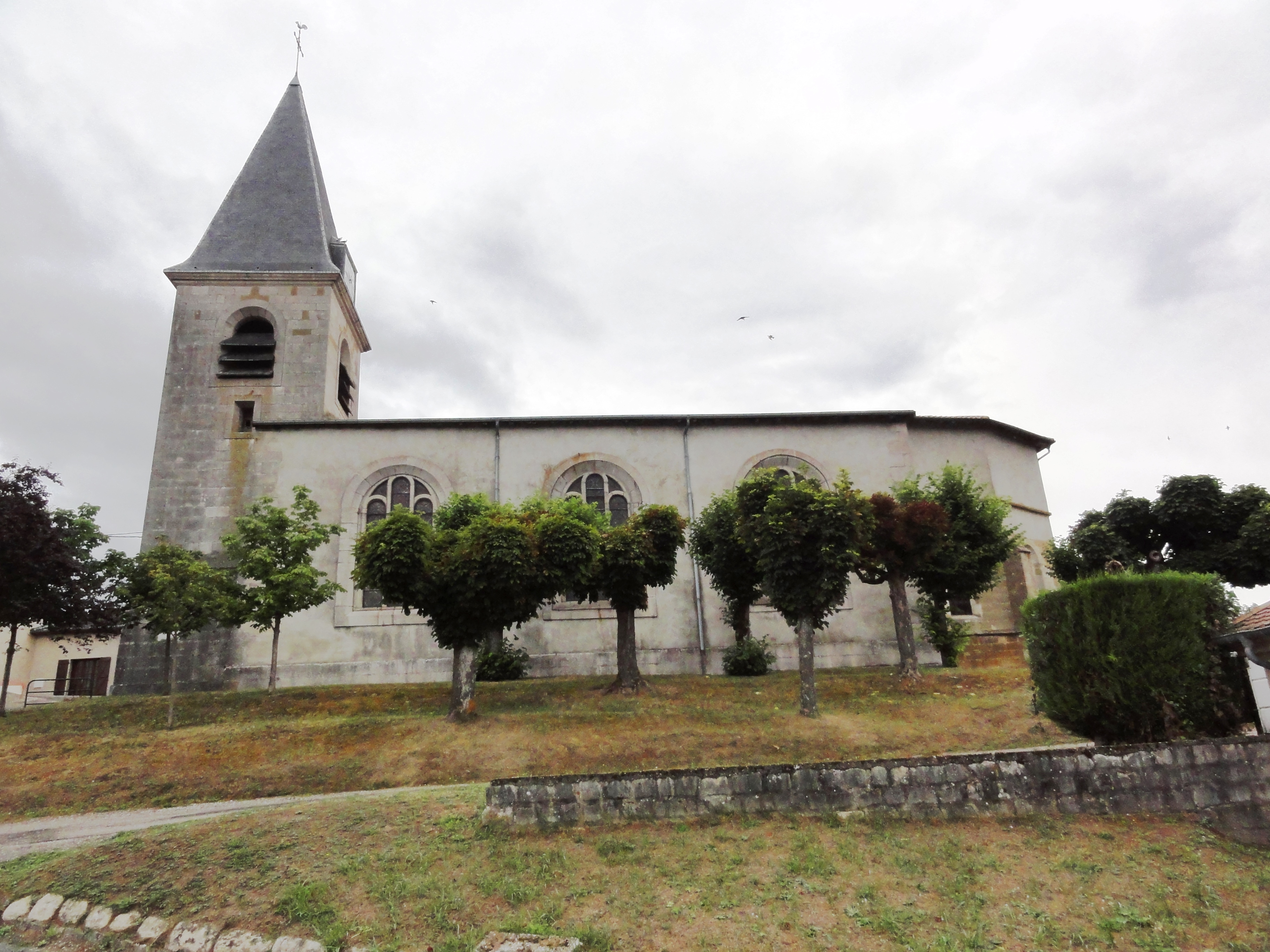 Laneuville-au-Rupt (Meurthe-et-M.) église